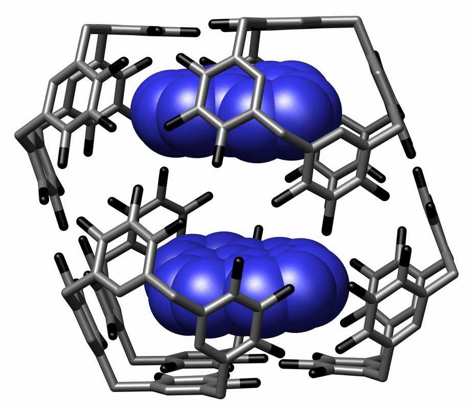 This is a picture generated from crystal structure data reported by Scott J. Dalgarno, Sheryl A. Tucker, Daniel B. Bassil, Jerry L. Atwood in Science, Year 2005, Volume 309, Pages 2037-2039. It shows two pyrene butyric acids bound within a hexameric nanocapsule composed of six C-hexylpyrogallol[4]arenes held together by hydrogen bonds. The side chains of the pyrene butyric acids are disordered and were omitted.